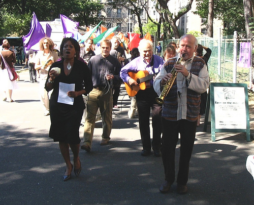 Paul Winter Consort playing (New York City, 2005)